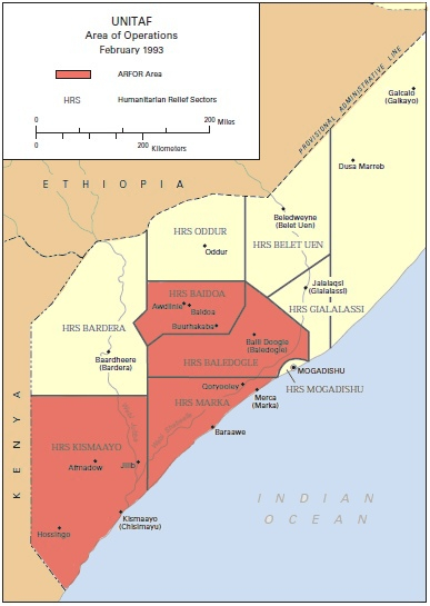 UNITAF AO February 1993